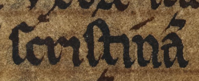 An excerpt from folio 42v of British Library MS Cotton Julius A VII (the Chronicle of Mann). The excerpt reads in Latin "Scristinam". The excerpt refers to Cairistíona inghean Fearchair, wife of Óláfr Guðrøðarson, King of the Isles (died 1237).